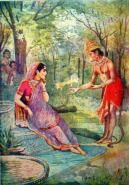 Hanuman's visit, in bazaar art with a Marathi caption, early 1900s